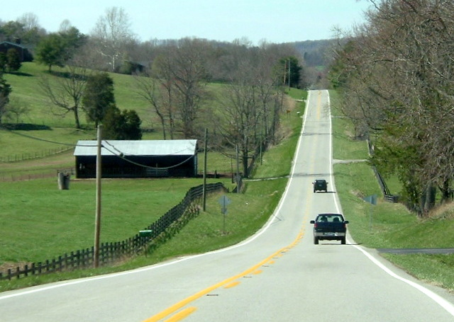 Picture of Kentucky Route 80 in Pulaski County, west of Somerset. Taken by uploader, Censusdata; all rights released.